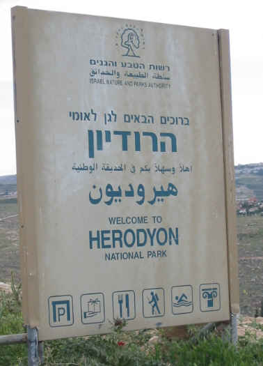 Sign at entrance to site, taken 20060417